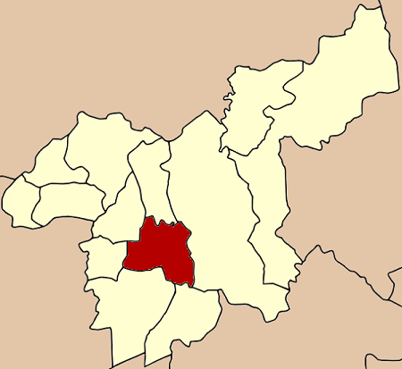 Map of Saraburi province, Thailand, highlighting Amphoe Mueang Saraburi.